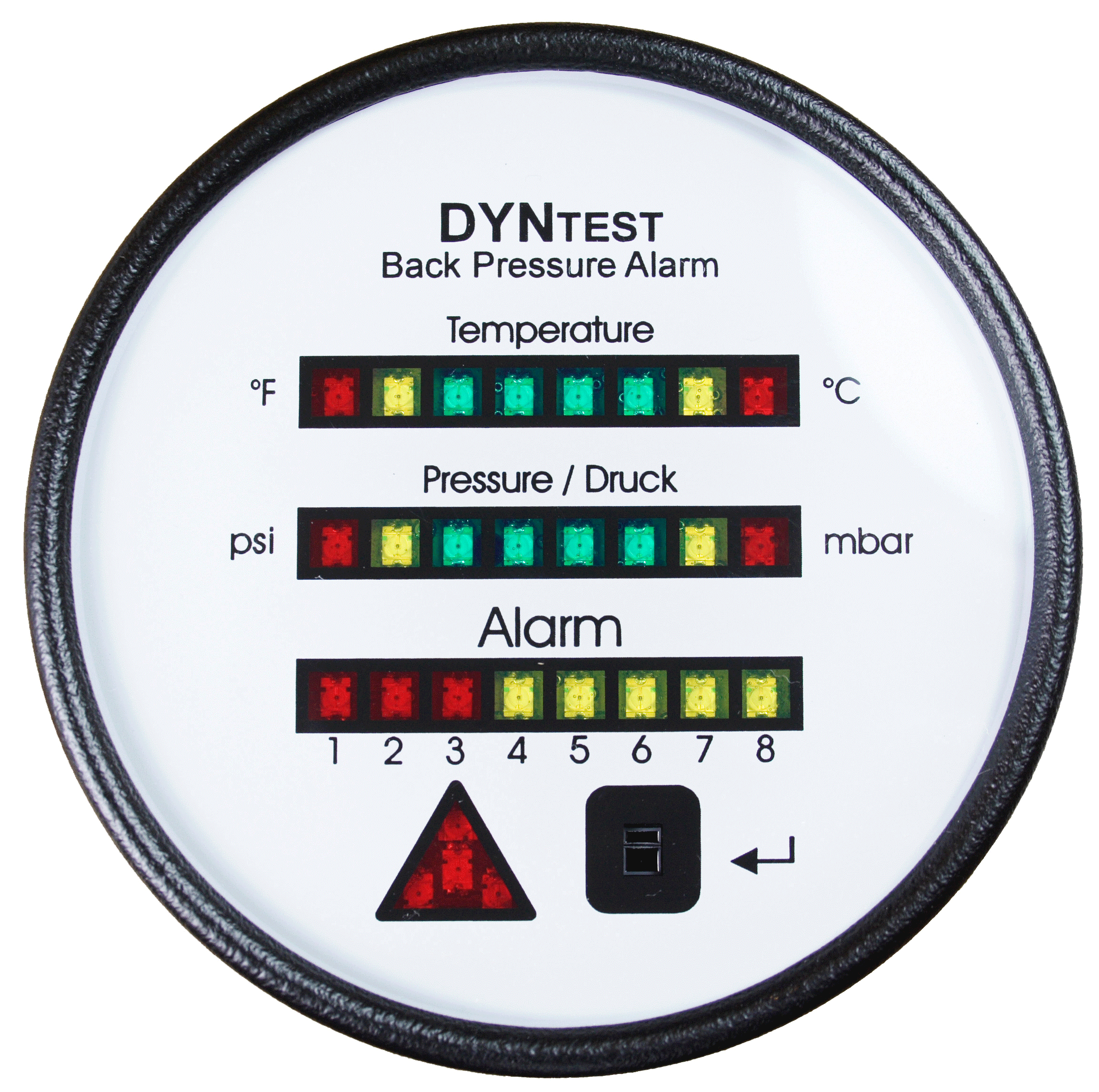 Display for Off-Road applications. Display for ECU (electronic control unit) from CPK Automotive to monitor diesel particulate filter.